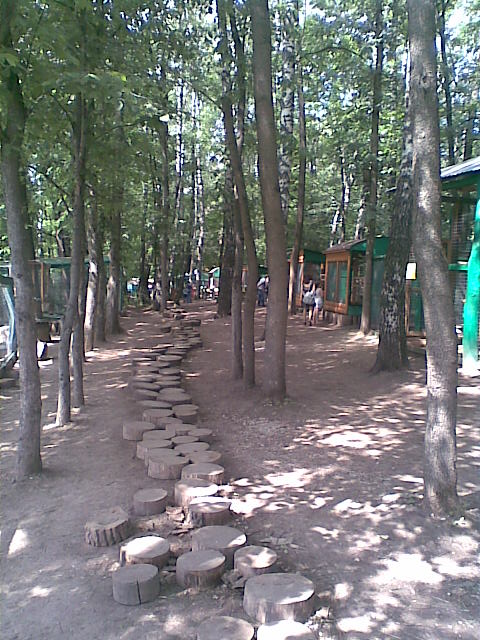 zoo tula